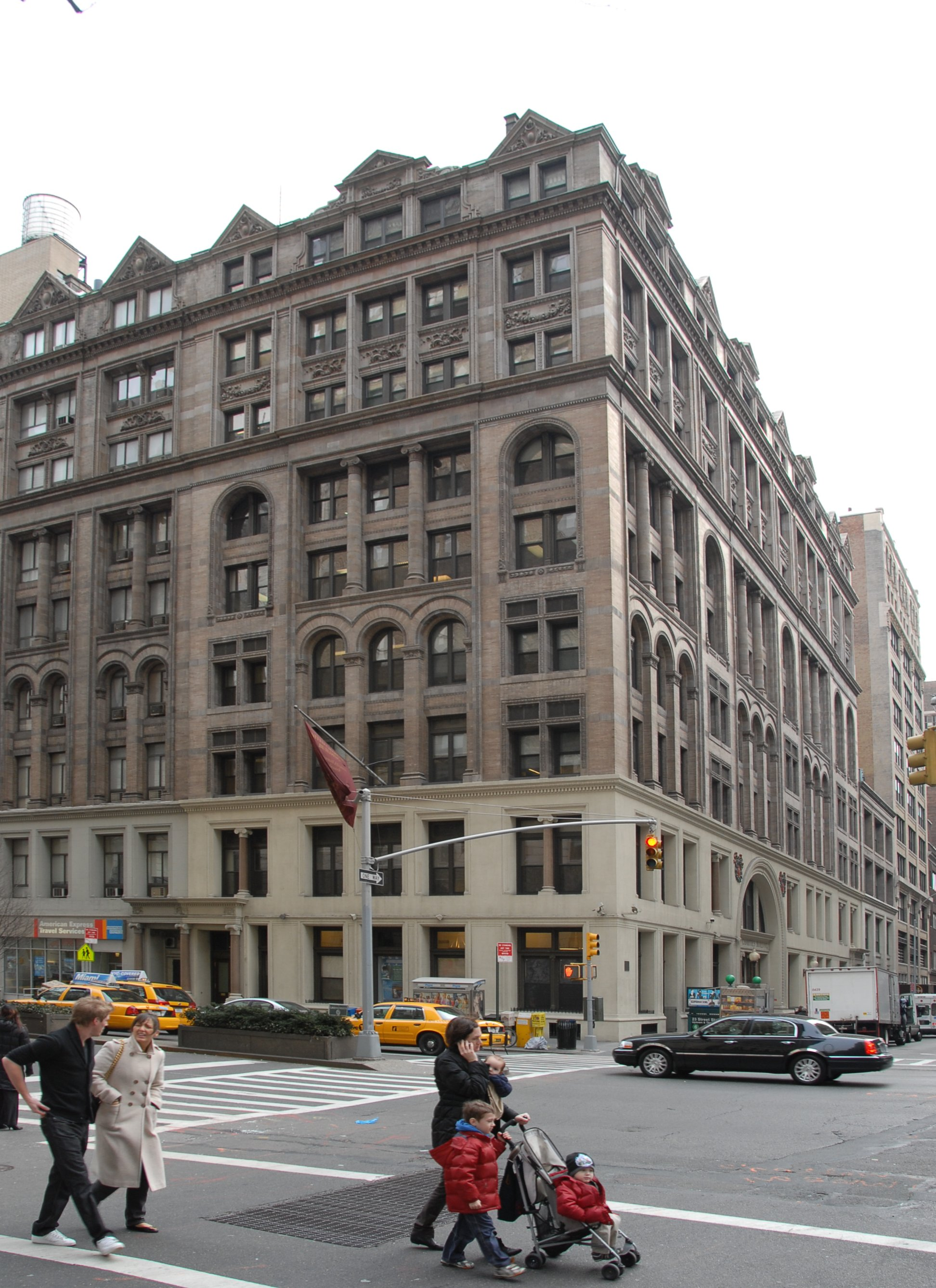 105 East 22 Street, Manhattan - first location of Pilsudski Institute of America